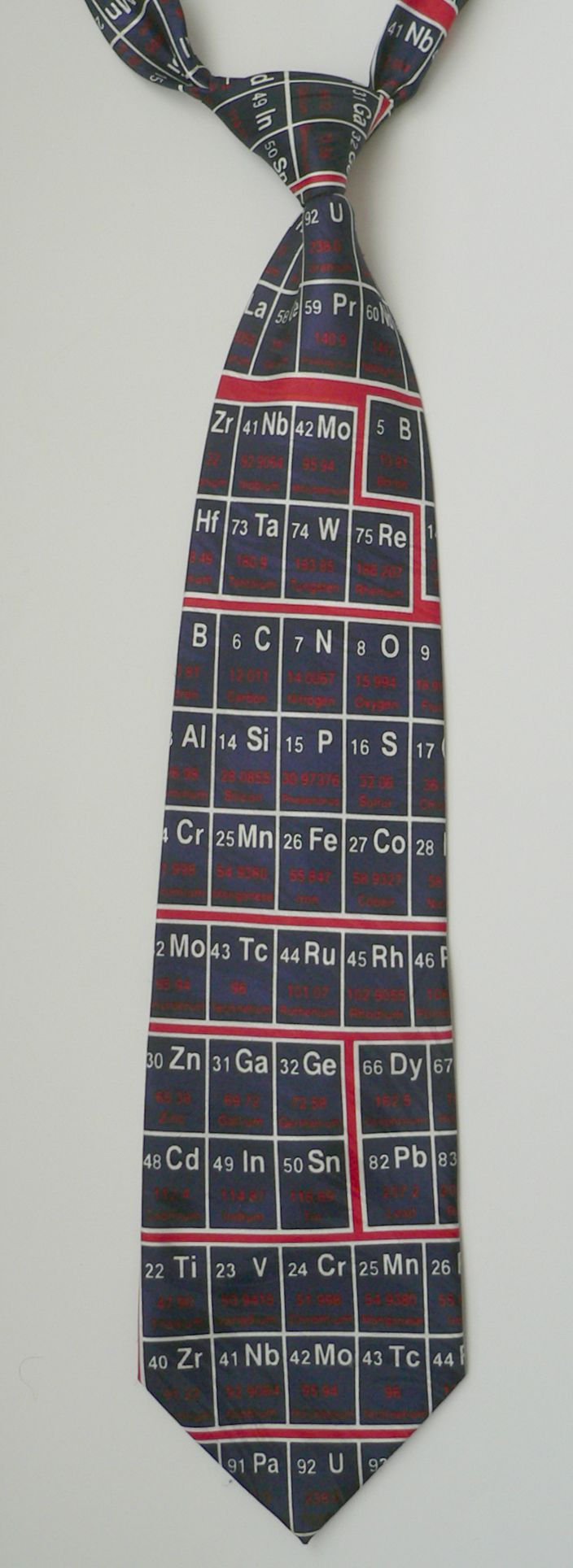 Necktie with periodical table